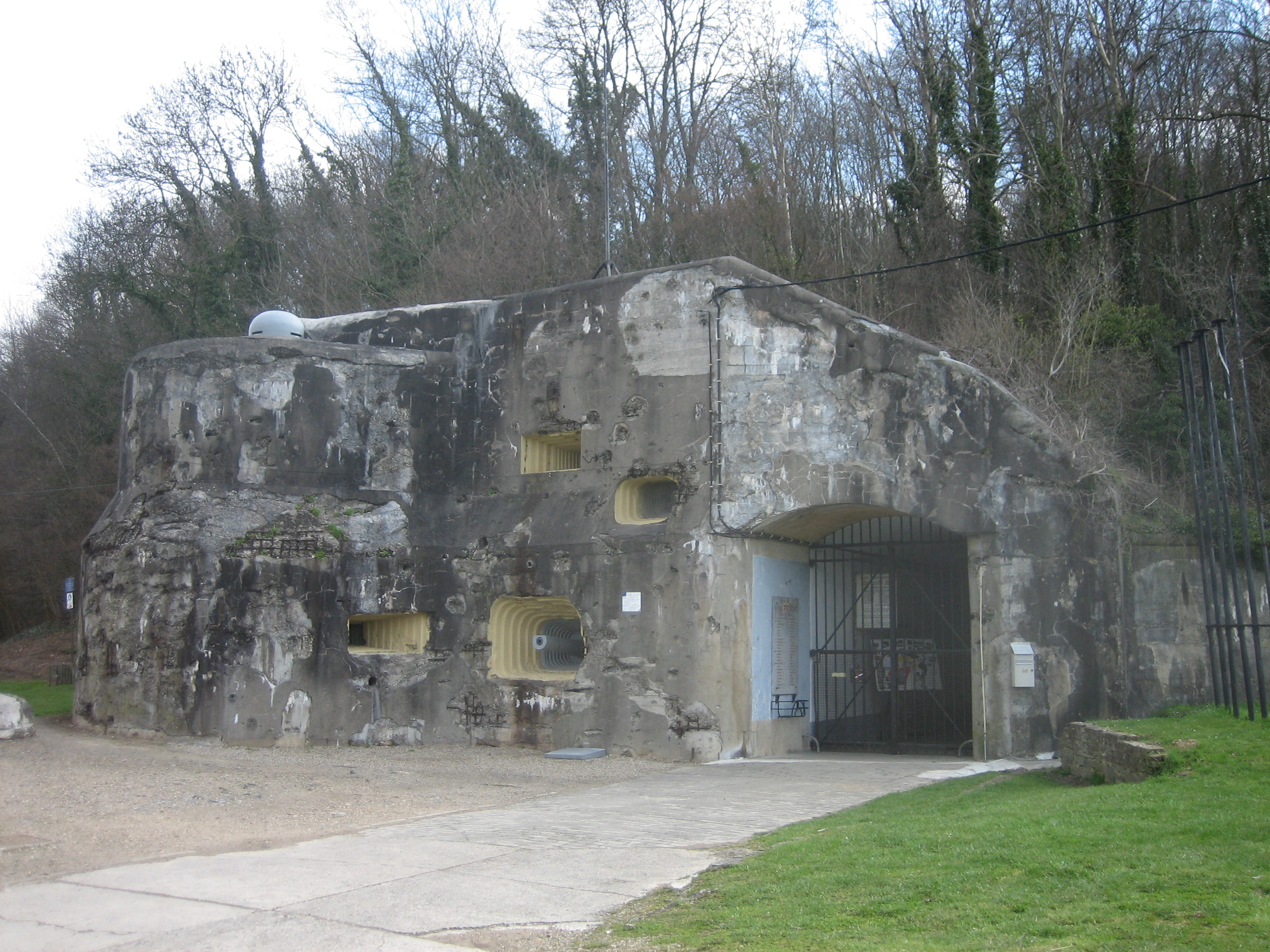 Fort Eben-Emael Entrance Photo taken 9-april-2006 by Hullie